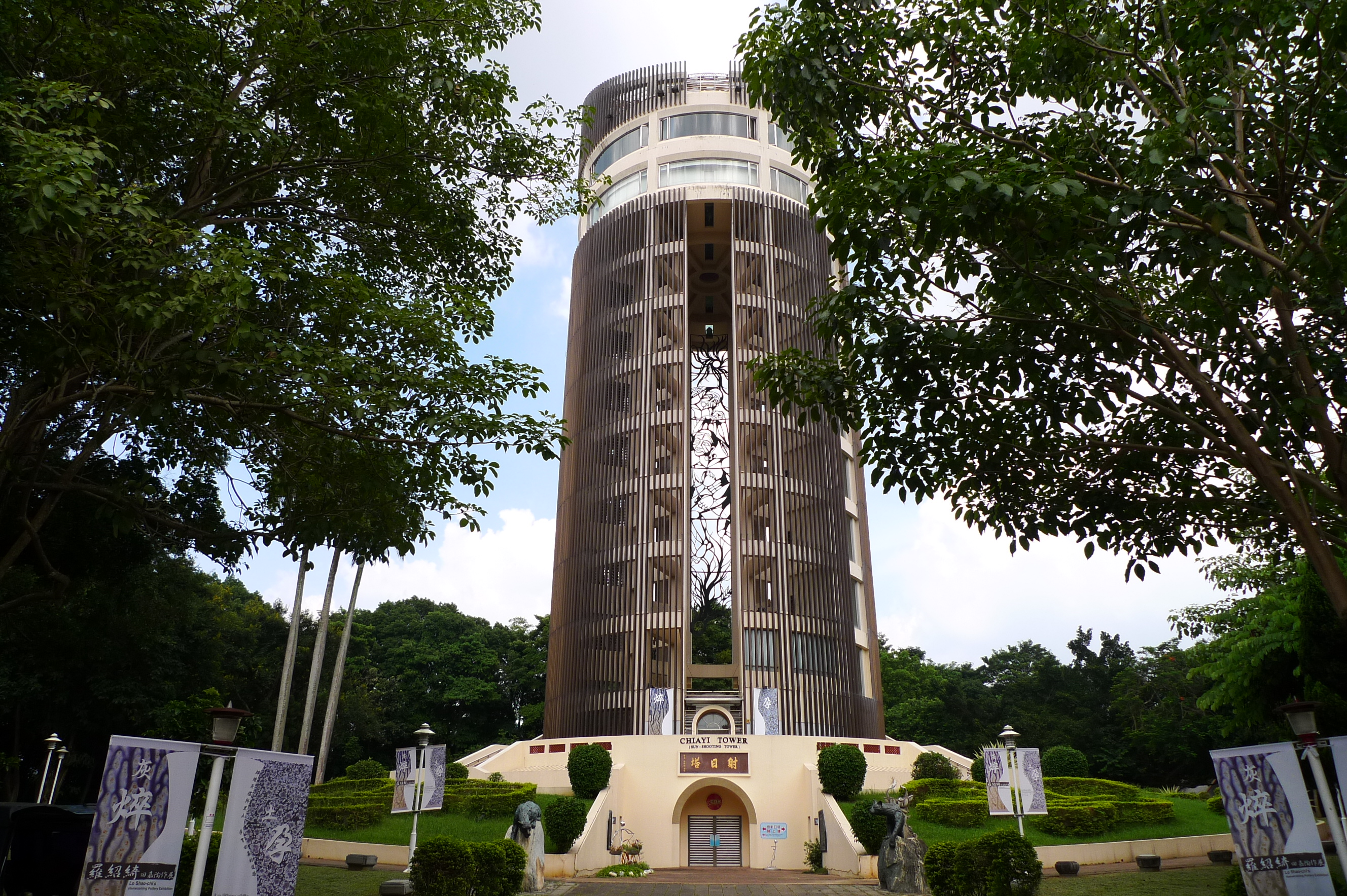 View through trees to Sun Shooting Tower.